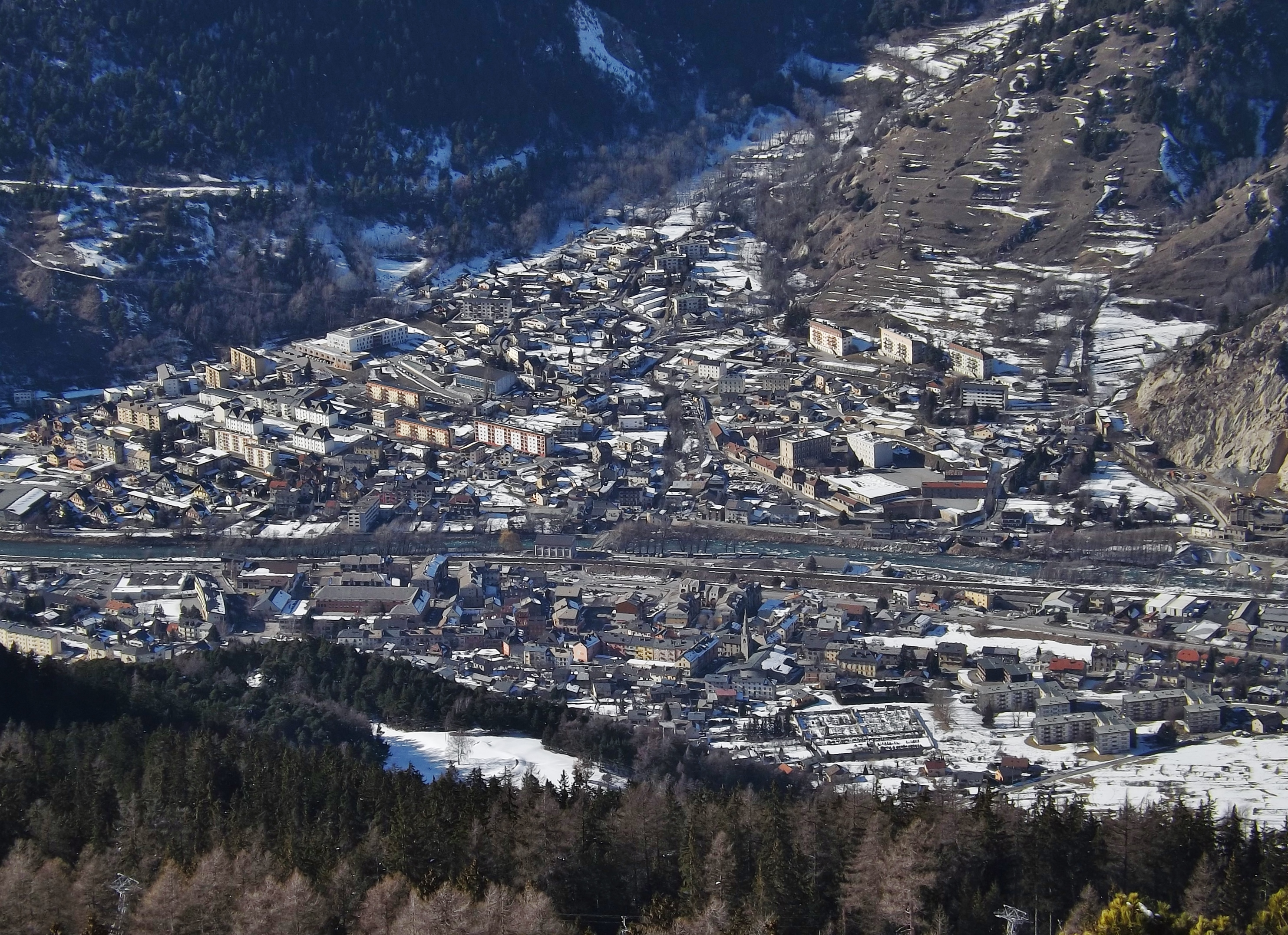 Panoramic sight, from the heights of La Norma ski resort, of Modane, in Savoie, France.